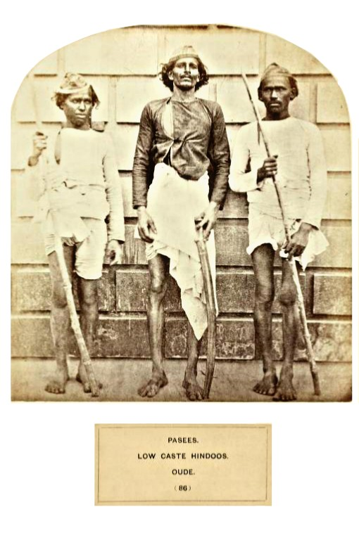 This image is from the book, The People of India, a series of photographic illustrations, with descriptive letterpress, of the races and tribes of Hindustan, originally prepared under the authority of the government of India, and reproduced. by J. Forbes Watson and John William Kaye between 1868 - 1875.